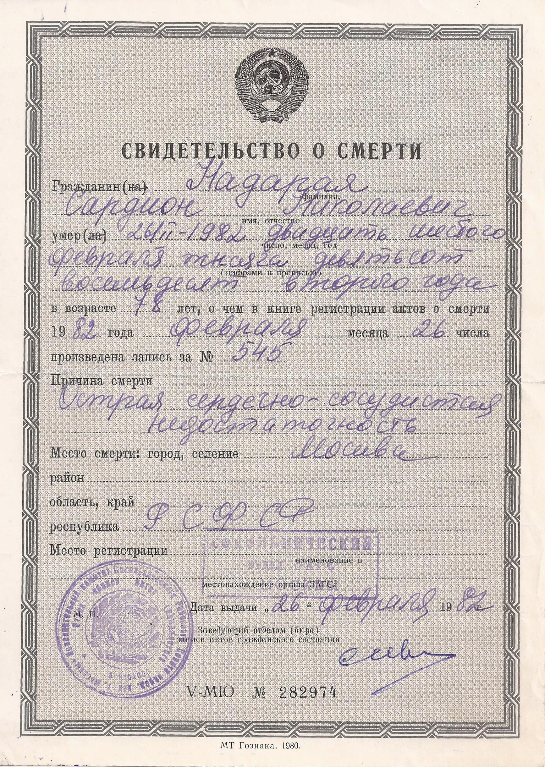 Sardion Svidetelstvo